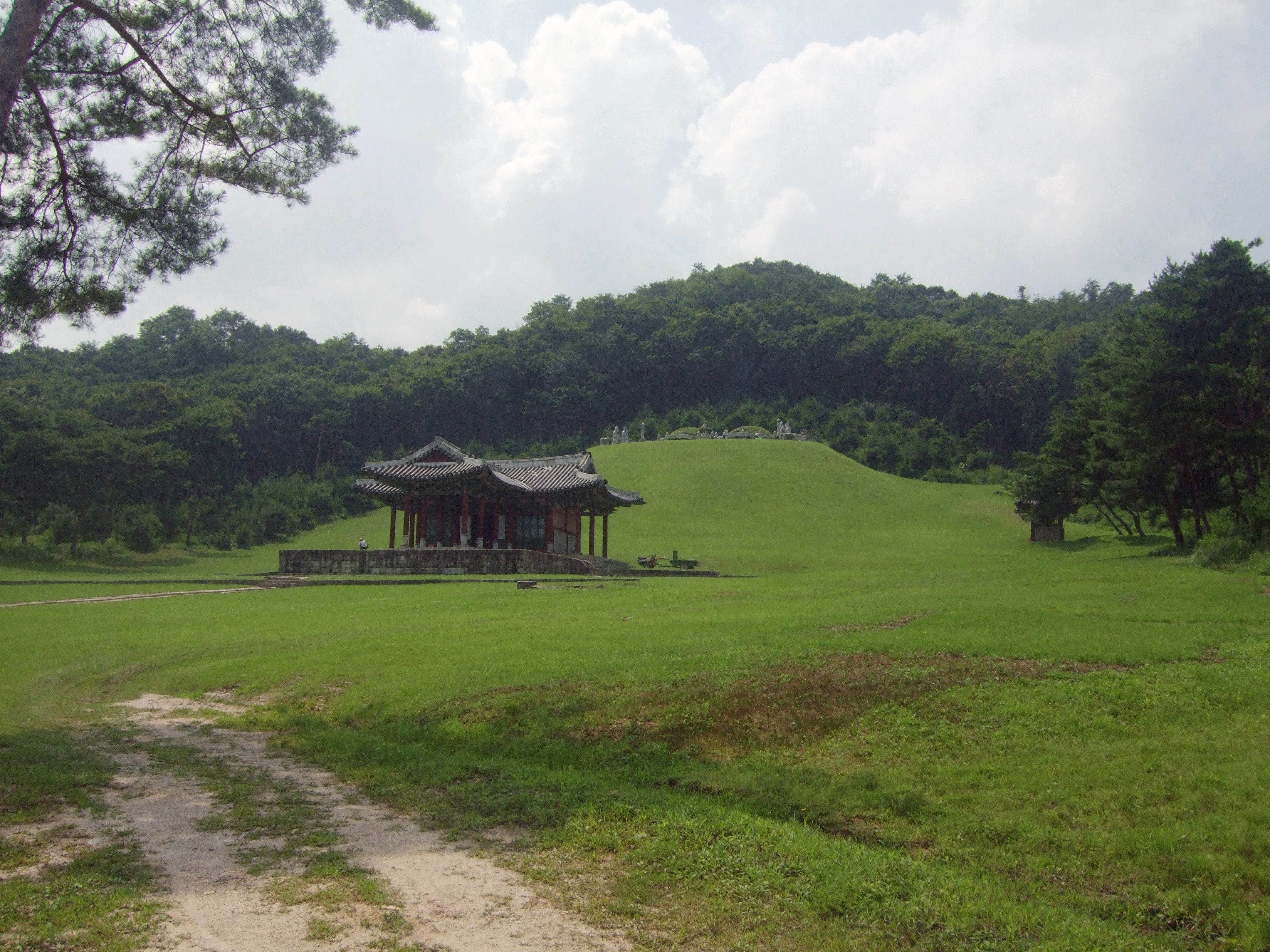 The tomb of the 18th king of Joseon, king Hyeonjong, called Sungneung